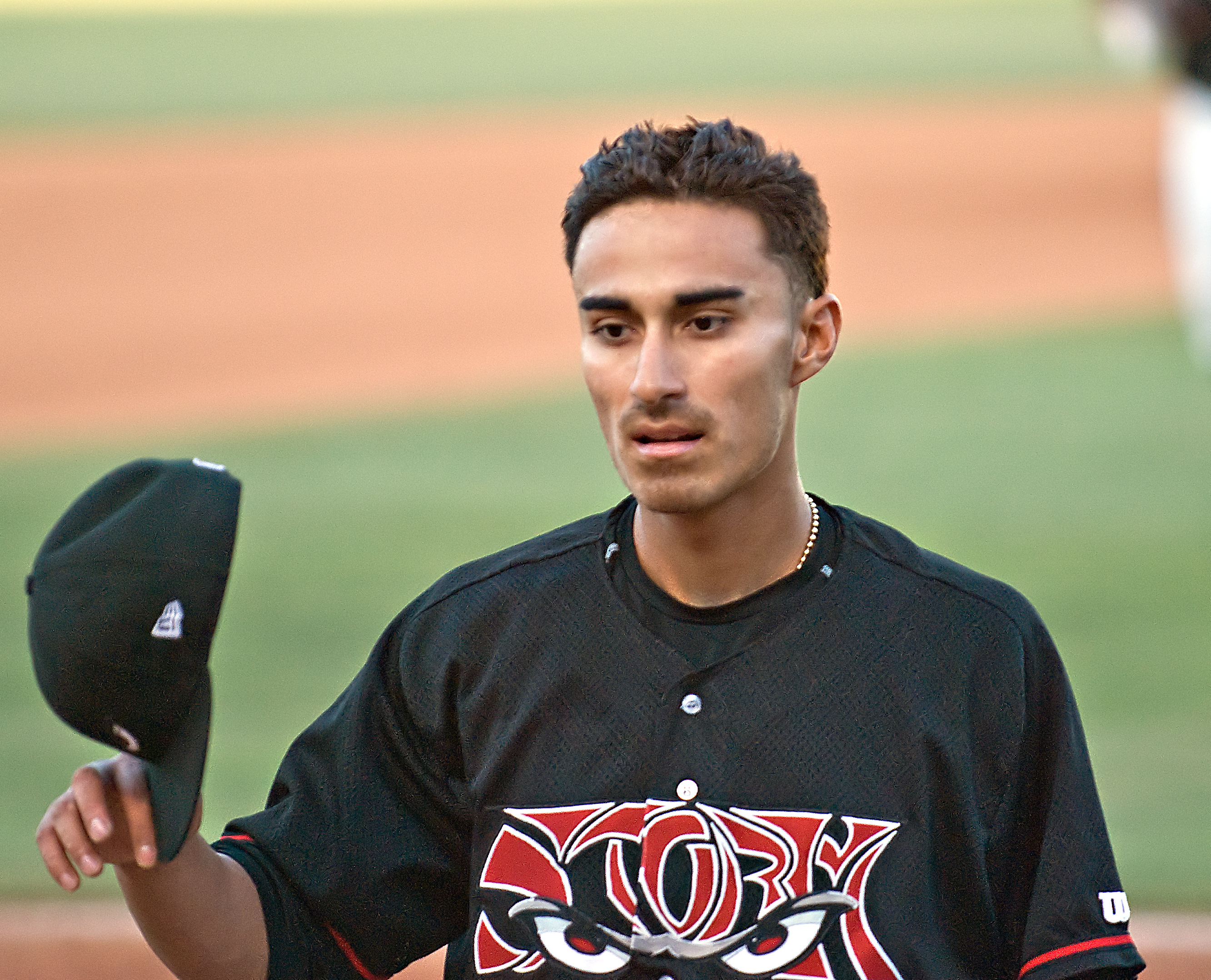 Pitcher Cesar Carrillo of Lake Elsinore Storm, San Diego Padres minor league team